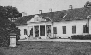 Nemes mansion. Mansion of the hídvégi Nemes family, Hídvég, Székely Land, Central Europe.